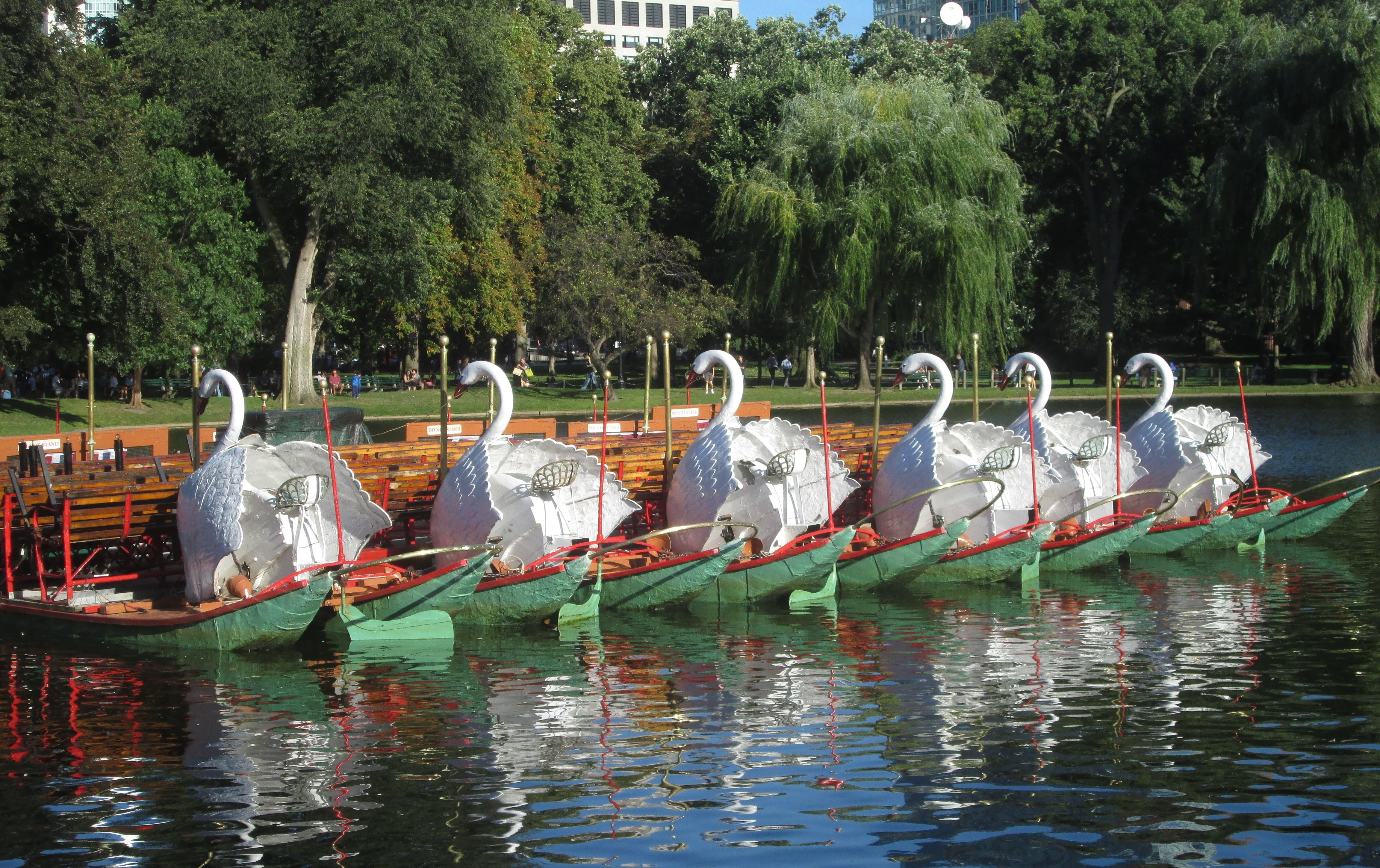 Swan Boats tied up in the Lagoon at the Boston Public Garden.